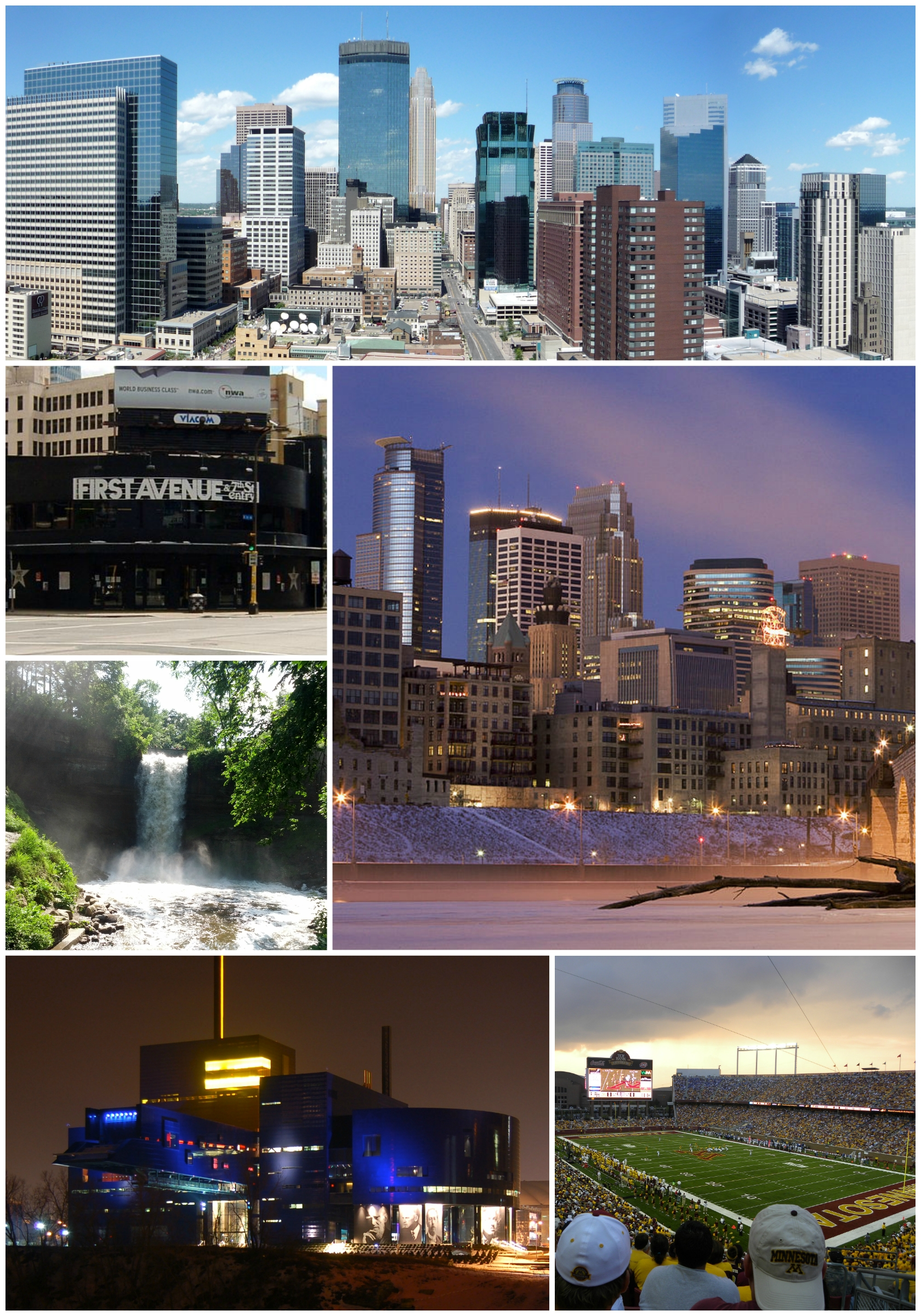 Collage of Minneapolis created using images released on Wikipedia Commons through public domain or explicitly for use on this website.